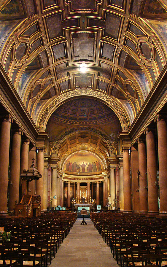 The nave of the Rennes Cathedral, Ille-et-Vilaine, Bretagne, France.